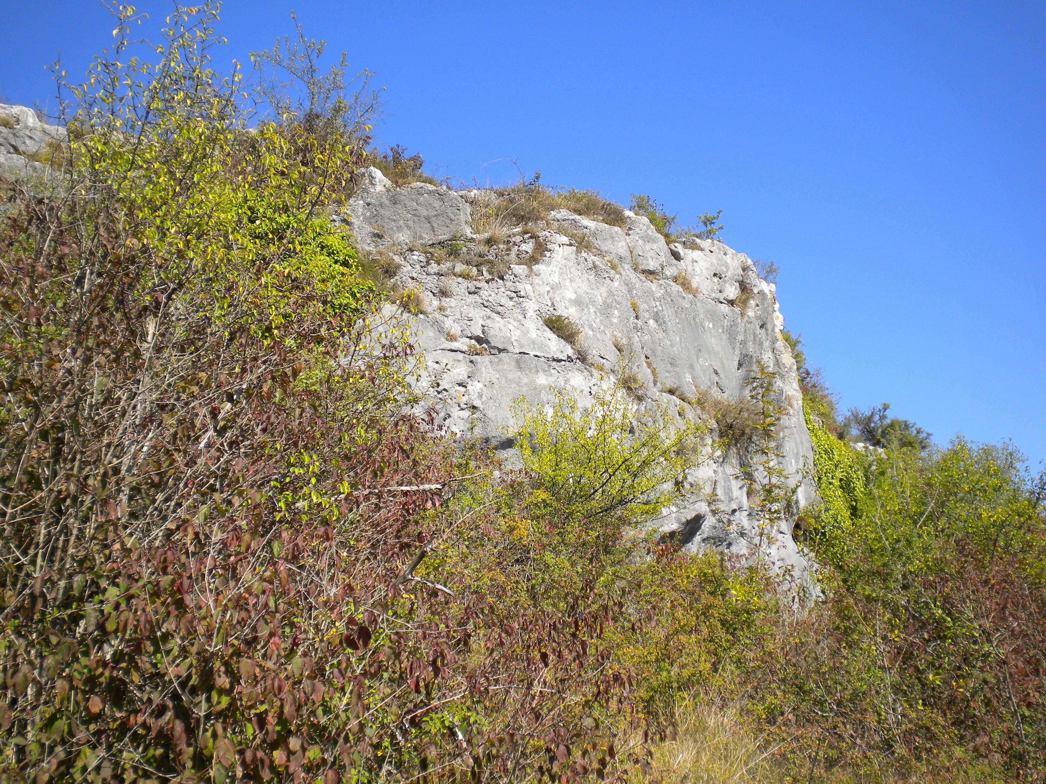 South-facing cliff made out of the Angoulême Formation, Lower Angoumian, Turonian. Photo was taken southeast of Mareuil near Font Grand.